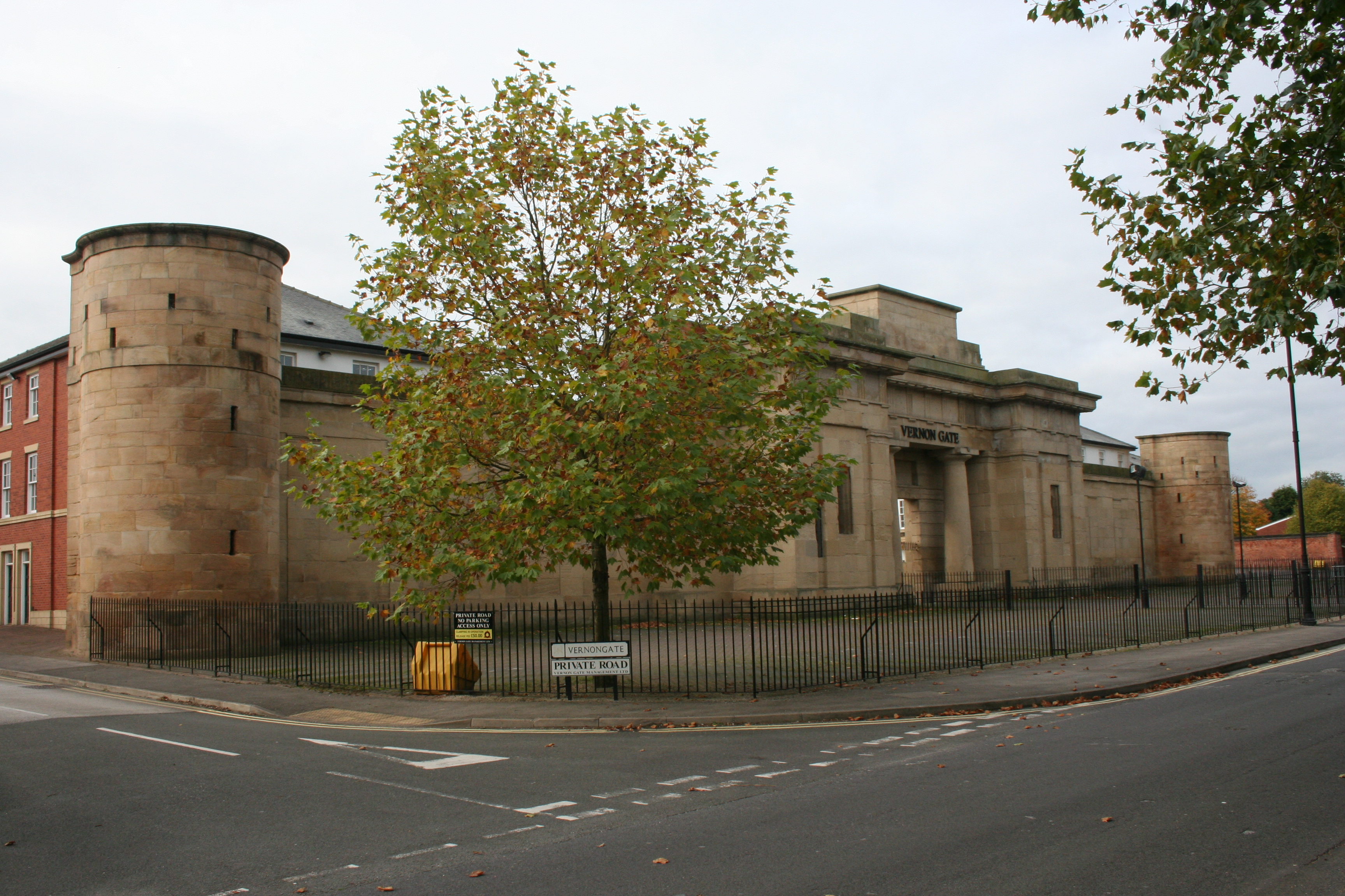 Surviving front of the New County Gaol, South Street, Derby, seen from the east